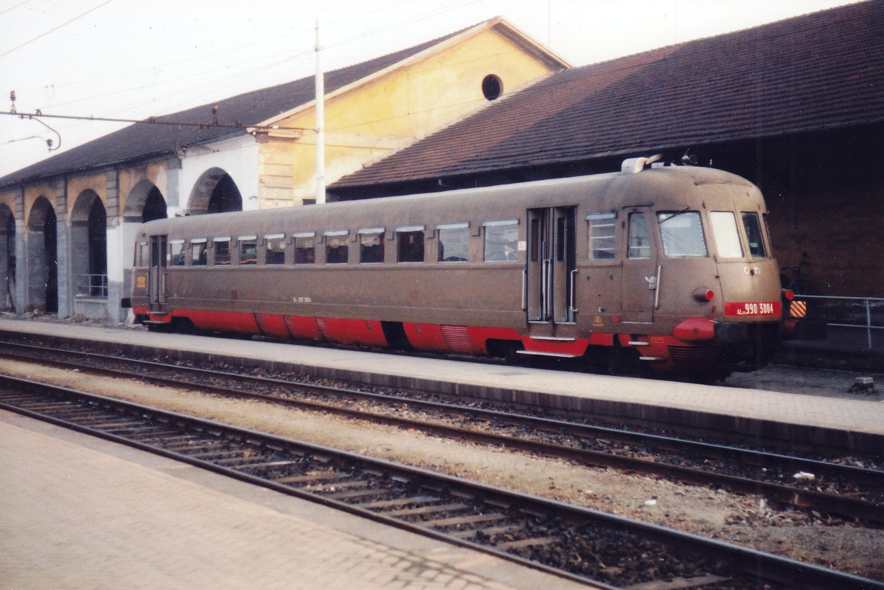 FS railcar ALn 990.3004 in Pavia